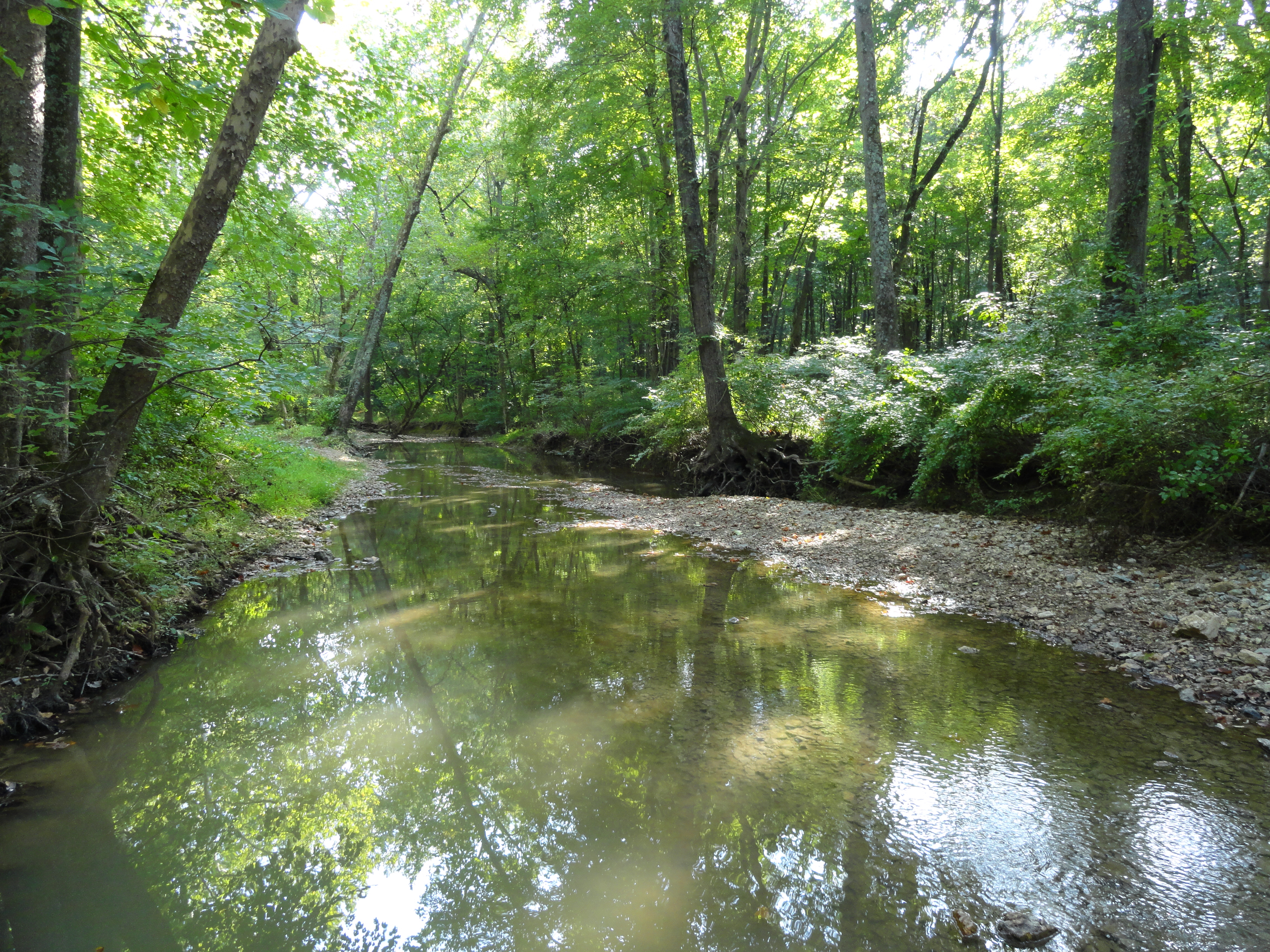 View of Ten Mile Creek, near Clarksburg, Maryland. Looking downstream (south), near West Old Baltimore Road.